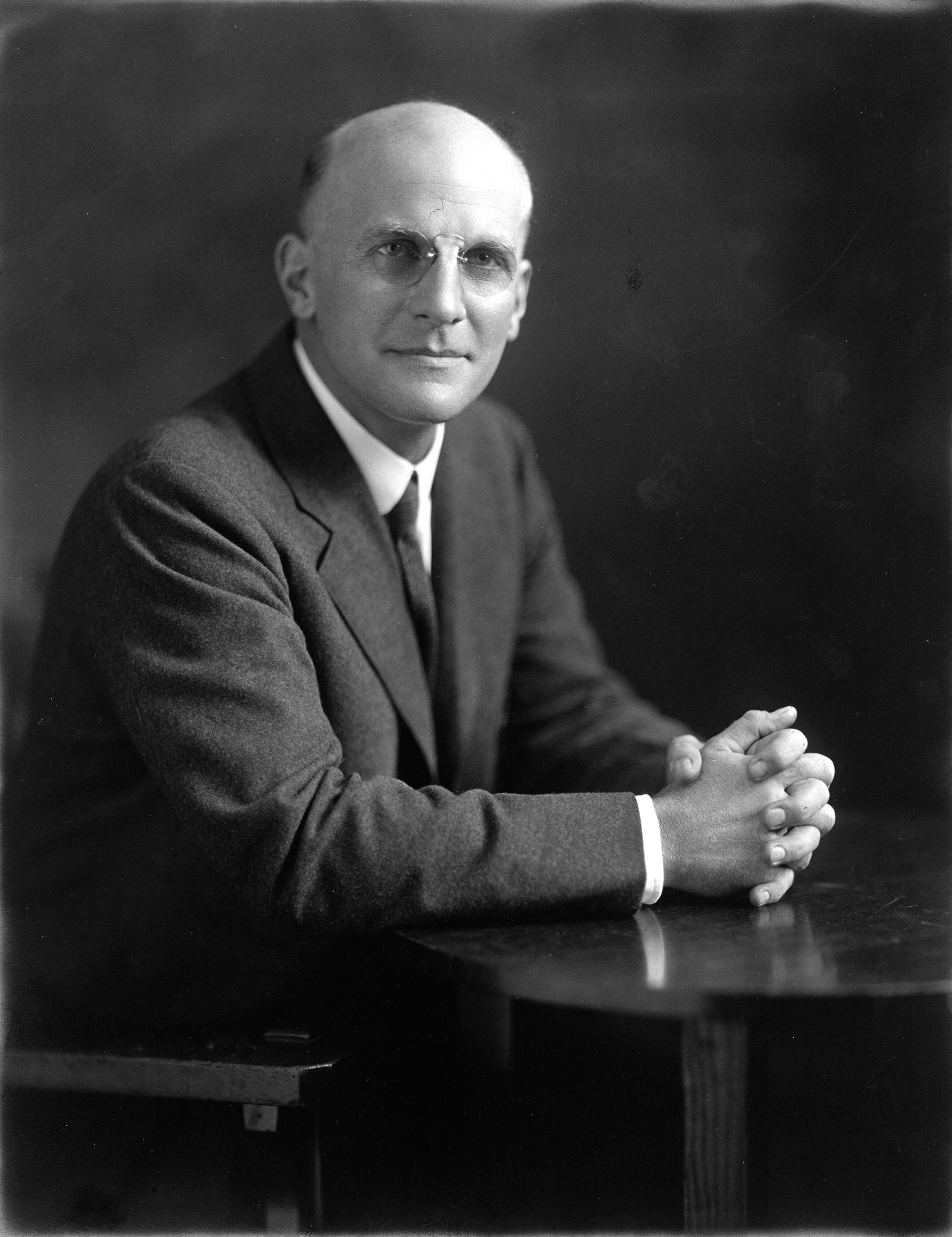 Portrait of Henry S. Dennison of Dennison Manufacturing, a follower of Frederick W. Taylor and scientific management, and an adviser to Presidents Woodrow Wilson and Franklin D. Roosevelt, ca. 1928 Collection: Midvale Company Photographs (1883 - 1953) Repository: The Kheel Center for Labor-Management Documentation and Archives